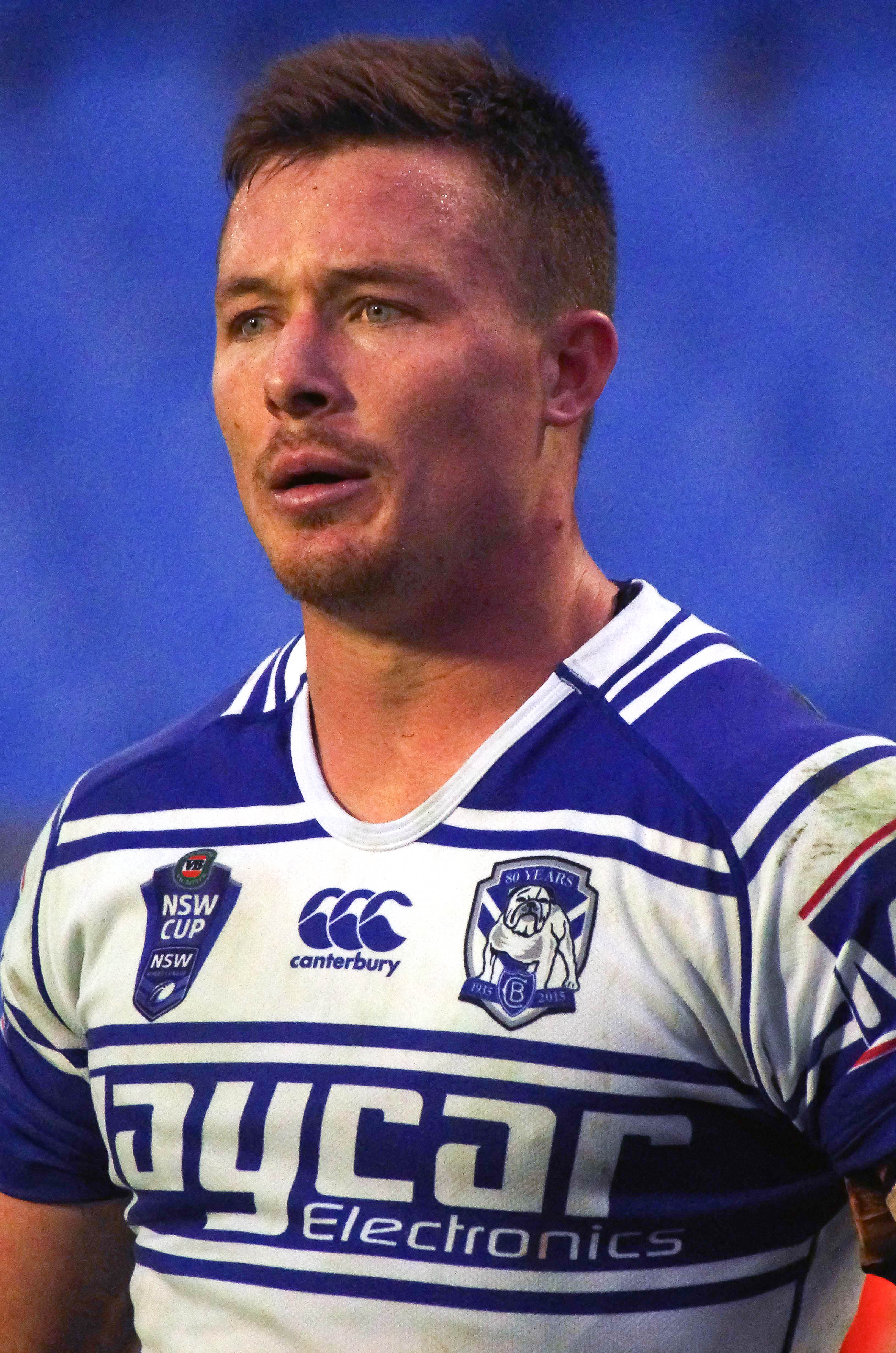 Damien Cook